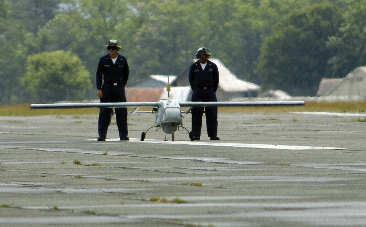 St. Inigoes, Md. (June 27, 2005) – Two Sailors assigned to the “Firebees” of Fleet Composite Squadron Six (VC-6), wait for the signal to release an RQ-2B Pioneer Unmanned Aerial Vehicle prior to its flight demonstration at the 2005 Naval UAV Air Demo held at the Webster Field Annex of Naval Air Station Patuxent River. The Pioneer Unmanned Aerial Vehicle (UAV) system provides real-time intelligence and reconnaissance capability to the field commander. This highly mobile system provides high quality video imagery for artillery or naval gunfire adjustment, battle damage assessment, and reconnaissance over land or sea. VC-6 is the Navy’s sole operator of the Pioneer. The daylong UAV demonstration highlights unmanned technology and capabilities from the military and industry and offers a unique opportunity to display and demonstrate full-scale systems and hardware. This year’s theme was, “Focusing Unmanned Technology on the Global War on Terror.” U.S. Navy photo by Photographer’s Mate 2nd Class Daniel J. McLain (RELEASED)